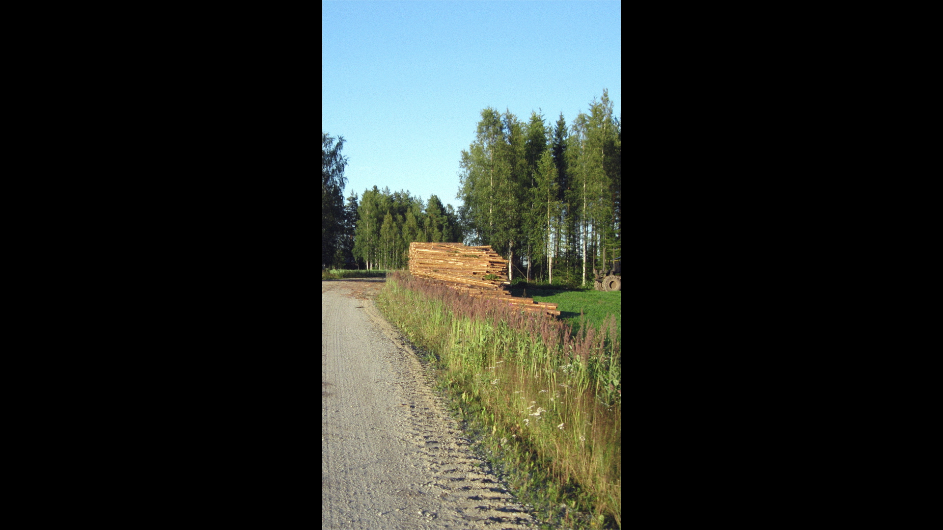 Example vertical video (9:16) on widescreen (16:9).